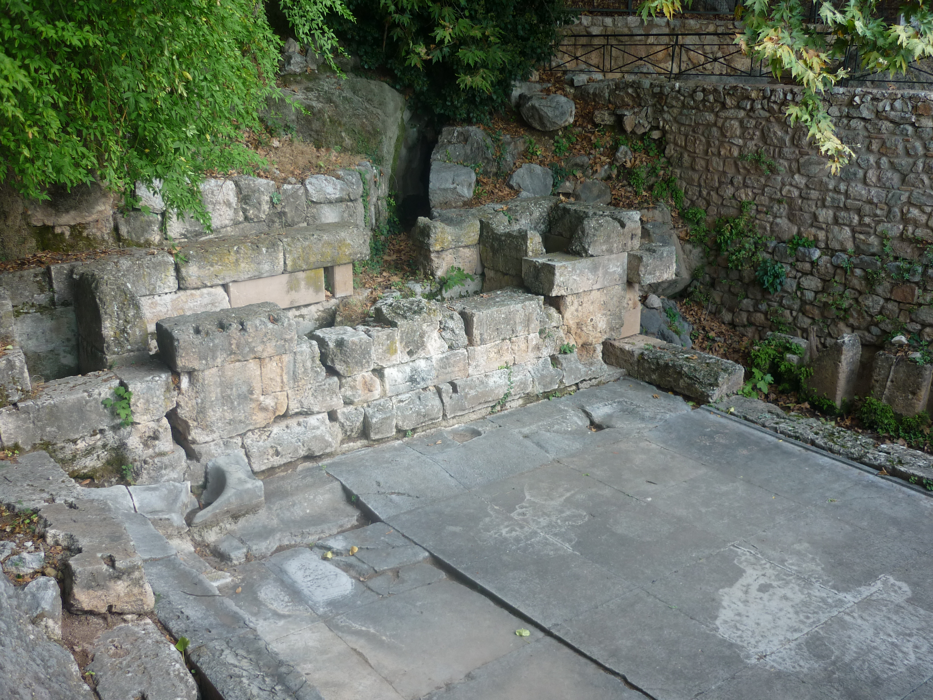 Archaic Castalian spring at Delphi Greece